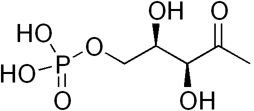 Chemical structure of 1-deoxy-D-xylulose 5-phosphate (DOXP)